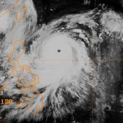 Super Typhoon Doug of the 1994 Pacific typhoon season on August 6 at 09Z, taken from the GMS-4 satellite. Cropped from original image.